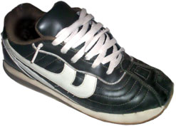 Shoe